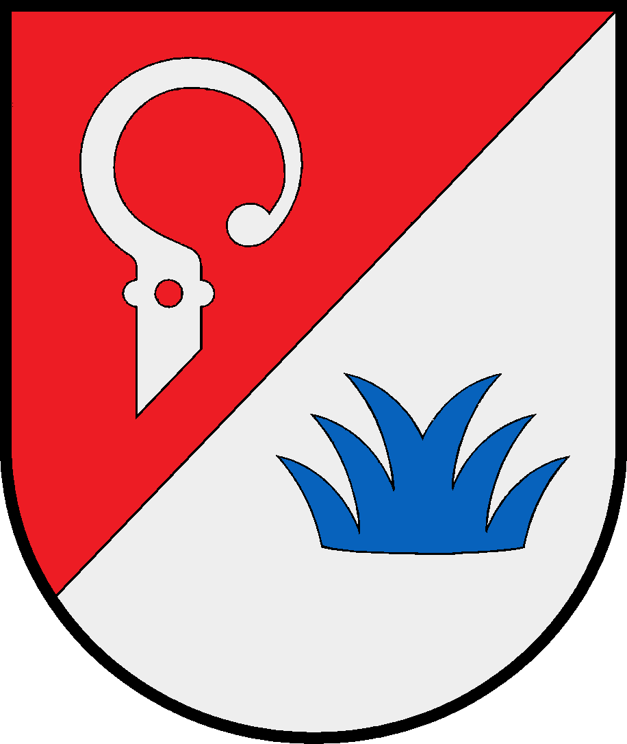 Coat of arms of the municipality Bendfeld in Schleswig-Holstein, Germany.